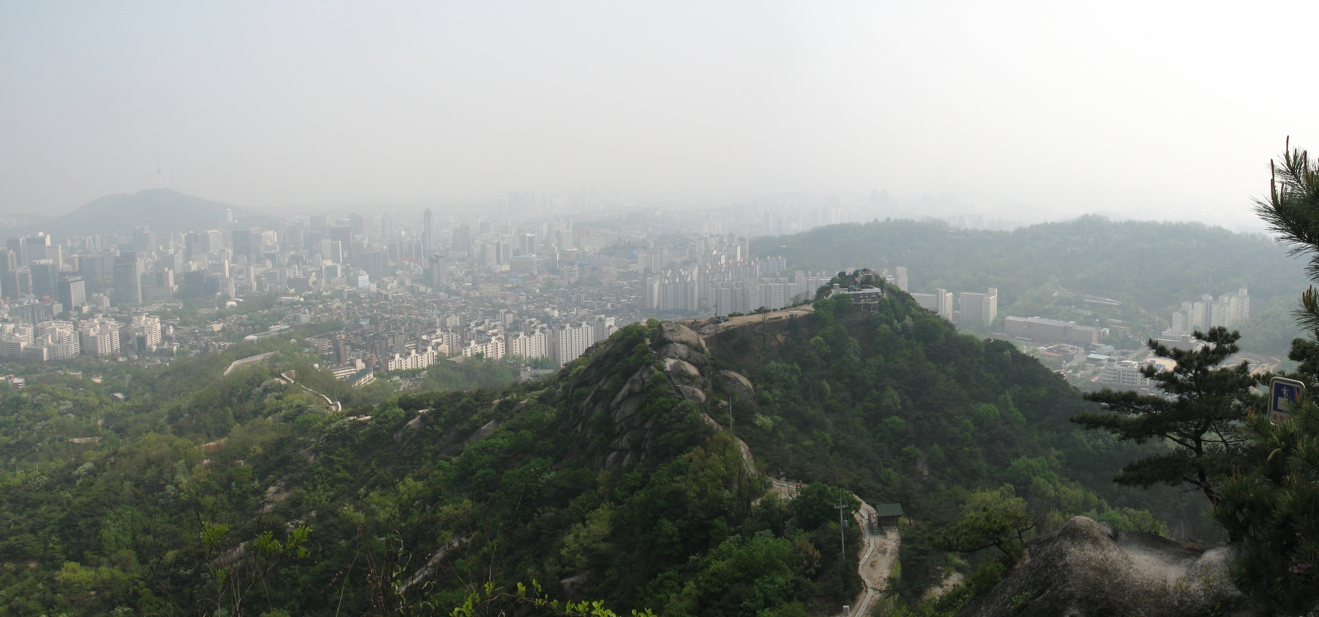 Mt. Inwangsan (인왕산) in Seoul, South Korea.